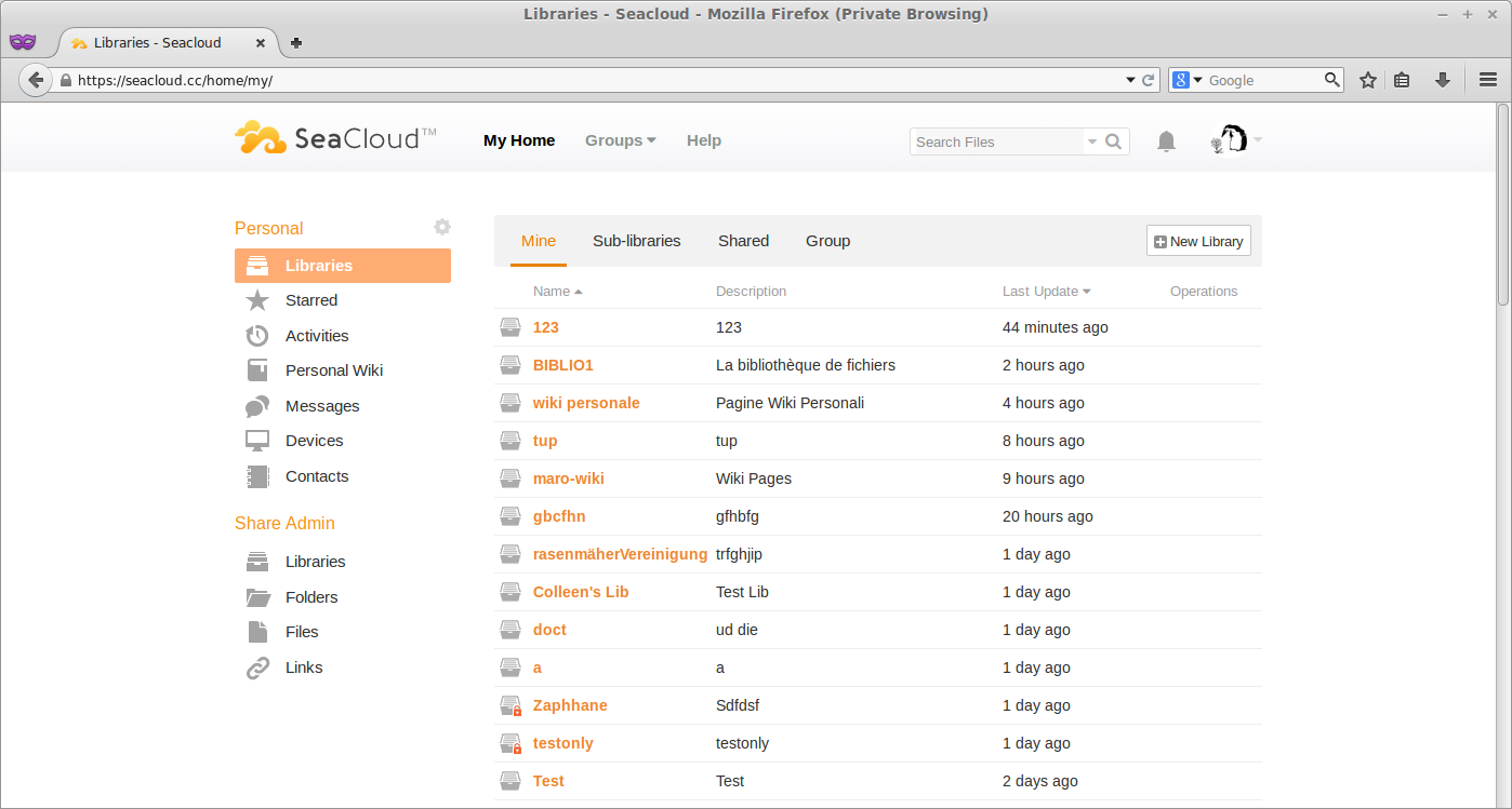 Seafile web interface for version 3.1.3